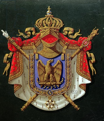 Coat of Arms of Napoleon III